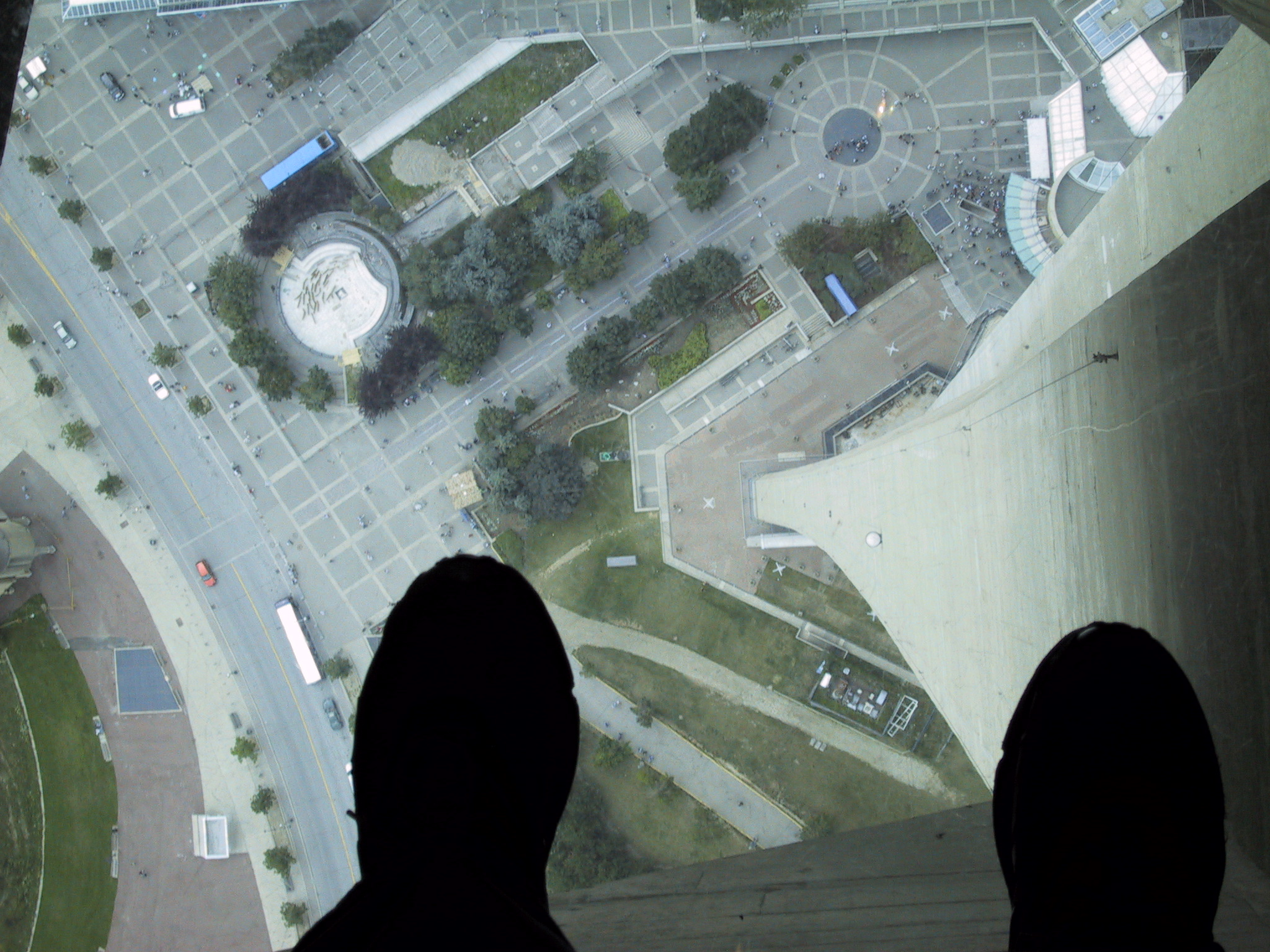 View through the Glass Floor of the CN Tower in Toronto, Canada; Acrophobia.